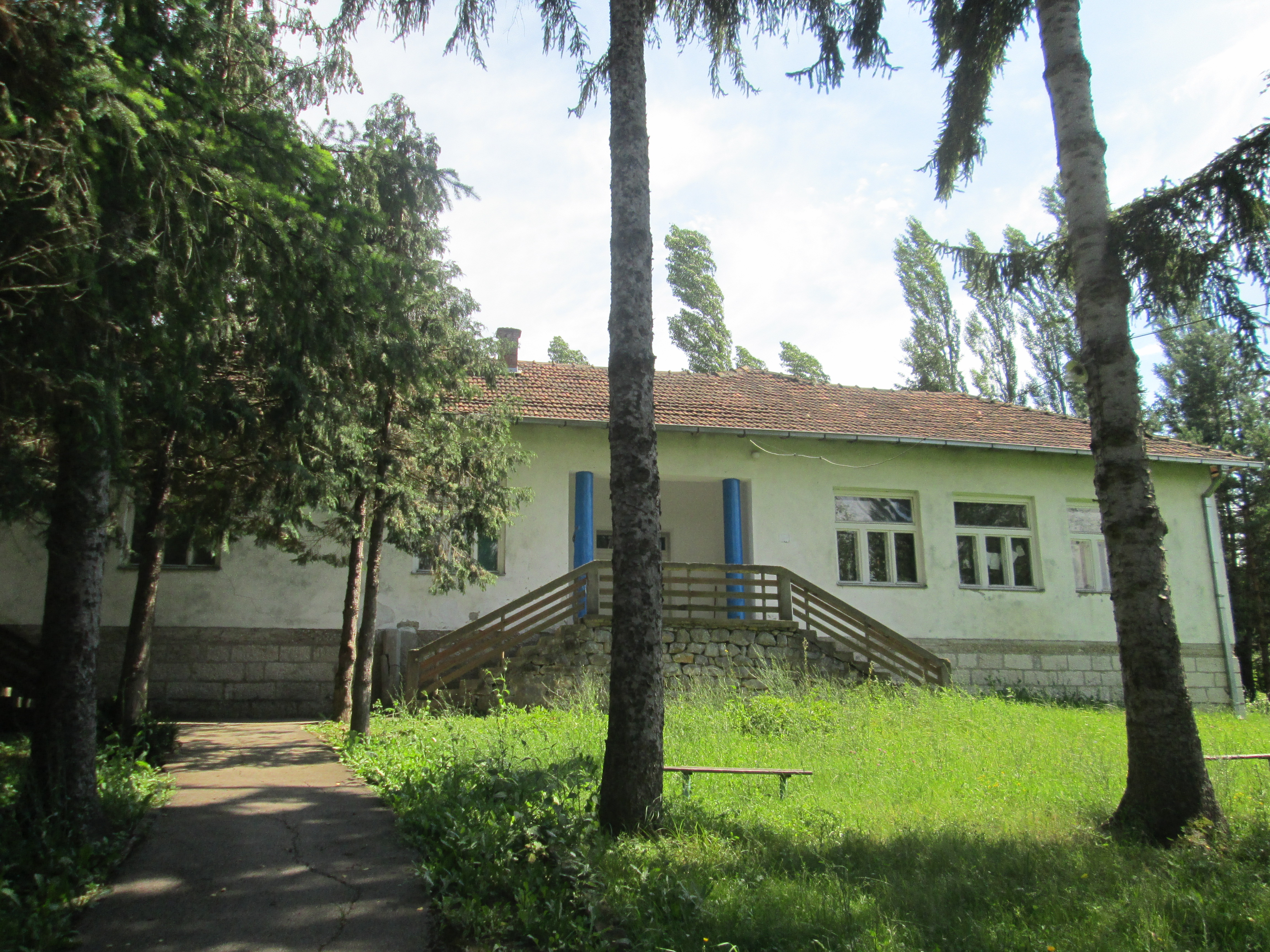 Primary school, Donja Dobrinja Српски (ћирилица): Основна школа, Доња Добриња